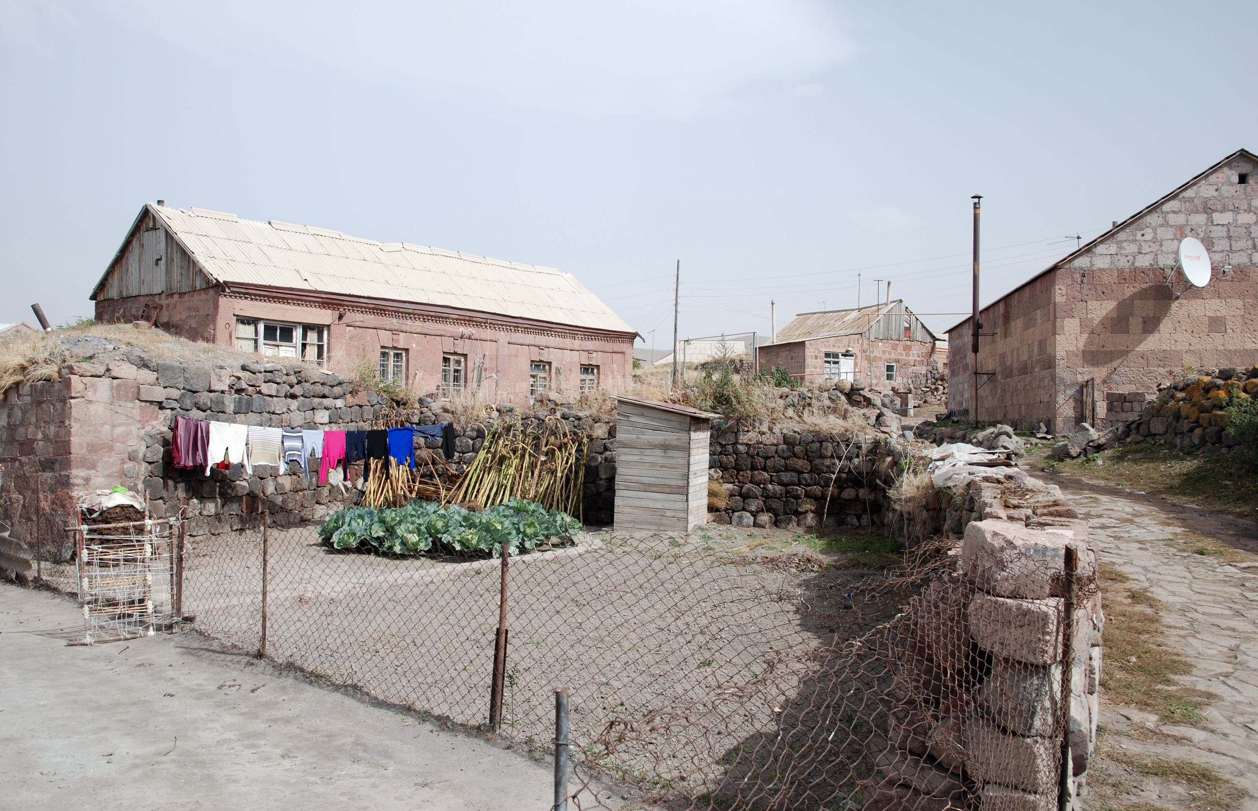 Lernakert village, Shirak province